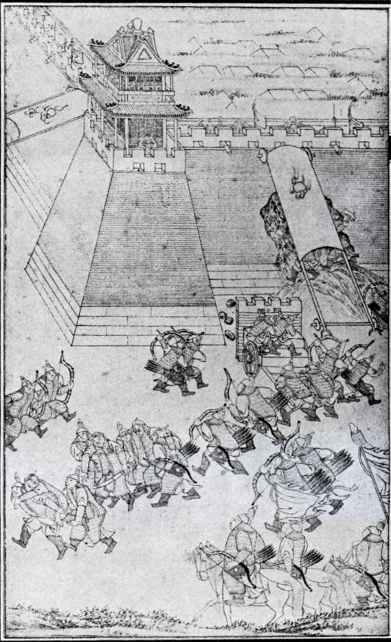 Illustration of the Battle of Ningyuan, originally printed in The Manchu Veritable Records (1781). Reprinted in The Great Enterprise: The Manchu Reconstruction of Imperial Order in Seventeenth-century China (1985) by Frederick Wakeman, Jr.